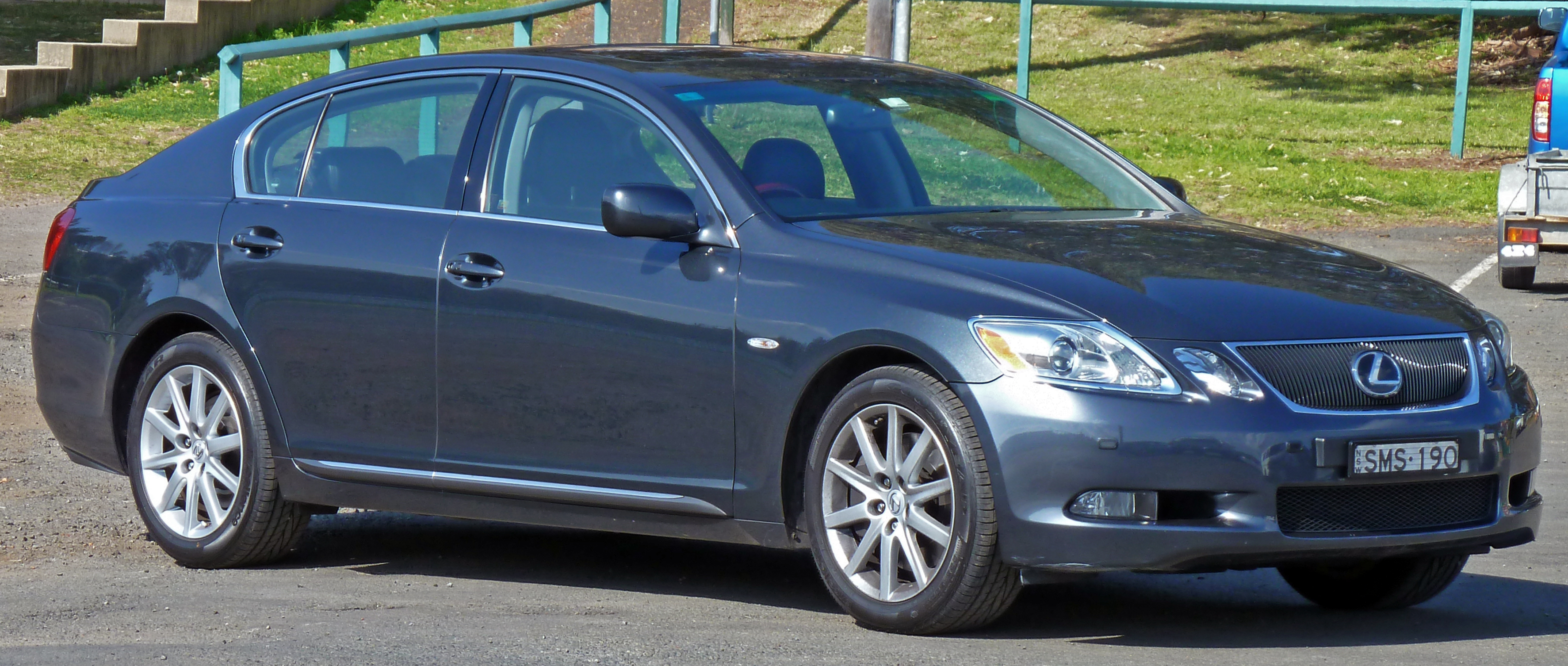 2005–2008 Lexus GS 300 (GRS190R) Sports Luxury sedan. Photographed in Cronulla, New South Wales, Australia.